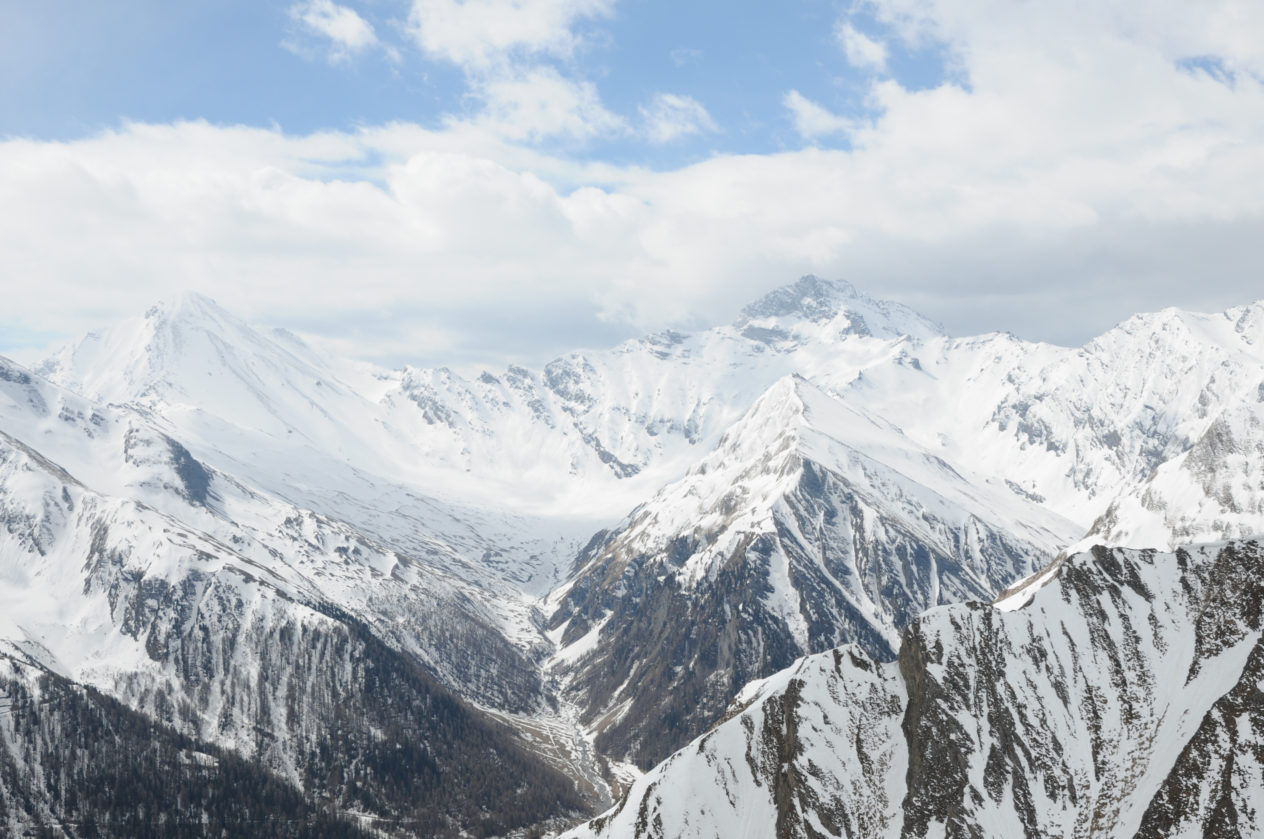 Piz Vinokourov in front of the Stammerspitze (middle)